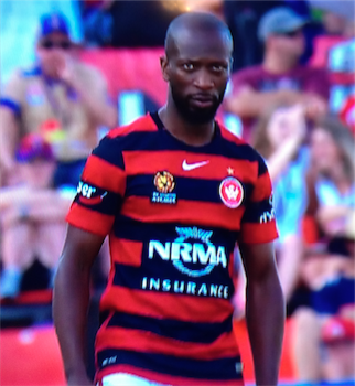 Romeo Castelen playing against Newcastle Jets on 13 March 2016.